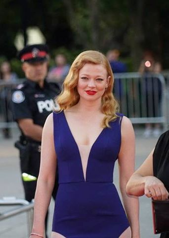 Sarah Snook at The Dressmaker Premiere at 2015 TIFF